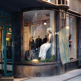 Gröna Moln (boutique), Västerånggatan 66, Old Town, Stockholm. 1996.